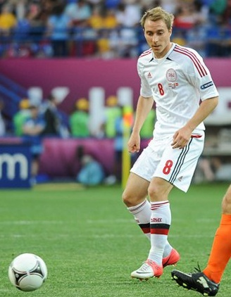 UEFA Euro 2012 match between Netherlands and Denmark that took place in Kharkiv. Final result was 0:1 (Krohn-Delhi). Christian Eriksen (Den) and Ron Vlaar (Net)